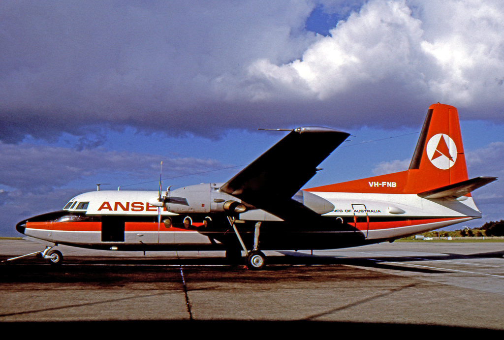 Fokker F.27-200 Friendship of Ansett Airlines at Melbourne Essendon Airport